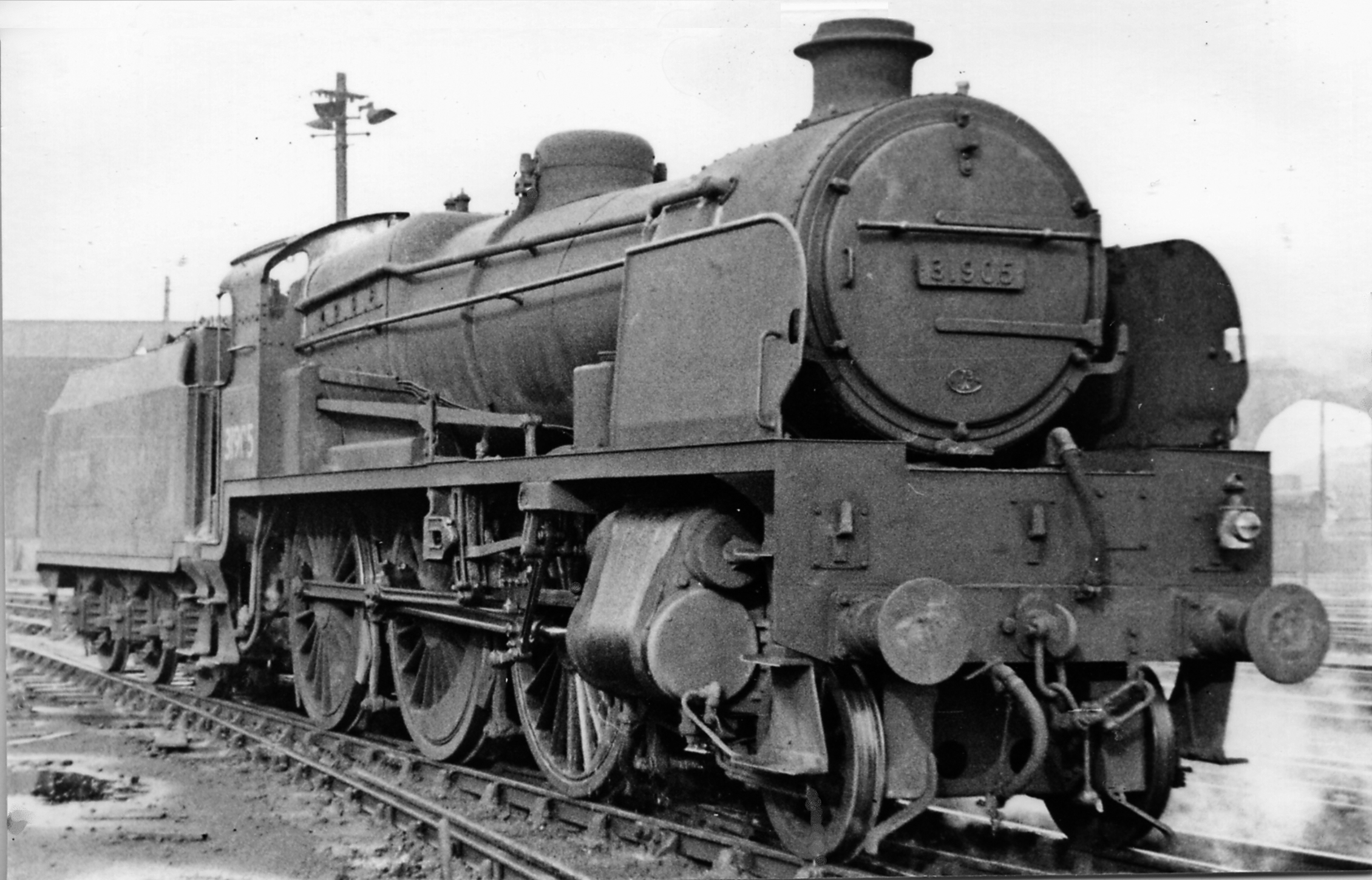 SR U1 class 2-6-0 at Stewarts Lane Locomotive Depot. No. 31905 is a Maunsell U1 (three-cylinder) 2-6-0, built 8/31 and withdrawn 12/62. The U1s were a more powerful version of the U 2-60s, normally employed on general passenger work, including Specials.